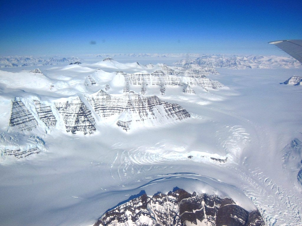 Geikie Plateau glacier and mountain peaks in eastern Greenland seen from NASA's P-3B during an IceBridge survey flight on Apr. 11, 2013. The distinctive layering in the Geikie Plateau's mountains come from repeated flooding of basalt lava from the North Atlantic's mid-ocean ridge millions of years ago.